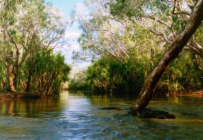 Intersection of Central Arnhem Highway and the Goyder River, in Arnhem Land in the Northern Territory of Australia. Central Arnhem Highway runs from left to right across the photo. I was standing facing in a south-easterly direction at the time I took the photo, having just crossed the river in a Toyota Landcruiser whilst conducting a route survey for a proposed natural gas pipeline. The maximum depth of the river crossing was about 750mm (about 2.5'). Dry season (June 2000). Taken on standard film, developed and later scanned.